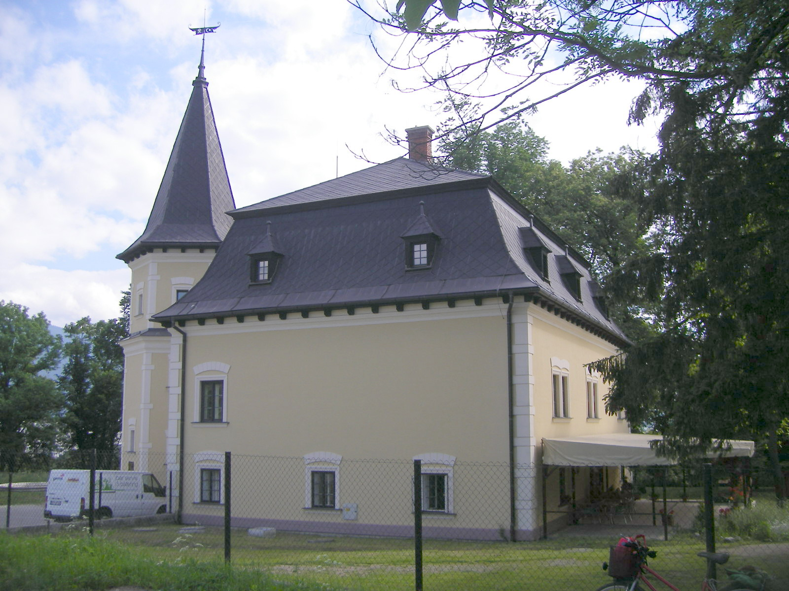 Záturčie - manor house This medium shows the protected monument with the number 506-11426/1 (other) in the Slovak Republic.